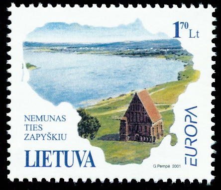 Europa. Water - Natural Treasure. Date of issue: 14th April 2001 Designer: G. Pempe Paper: coated Printing process: offset Perforation: comb 13 : 13 1/4 Size of a stamp: 35,50 x 30 mm Size of a Miniature Sheet: 97 x 174 mm Miniature Sheet composition: 10 (2 x 5) stamps. Printing run: 500.000 stamps or 50.000 Miniature Sheets Michel catalogue numbers: 756-757 1,70 L. multicoloured. The river Nemunas by Zapyskis